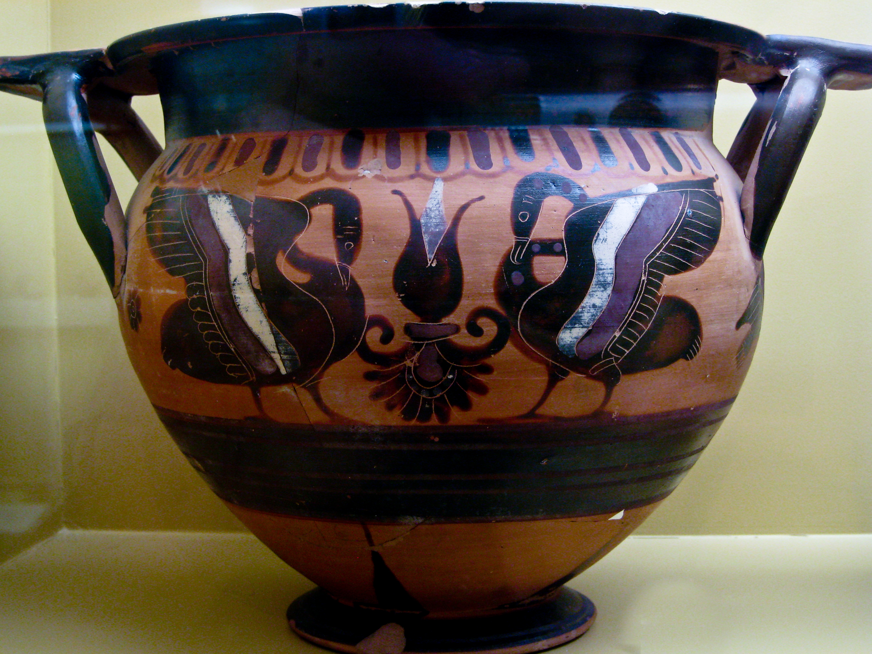 Black-figured column crater depicting swans.